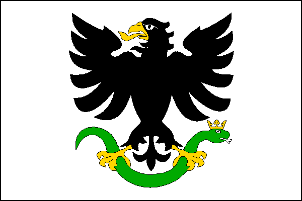 Municipal flag of Skoronice village, Hodonín District, Czech Republic.